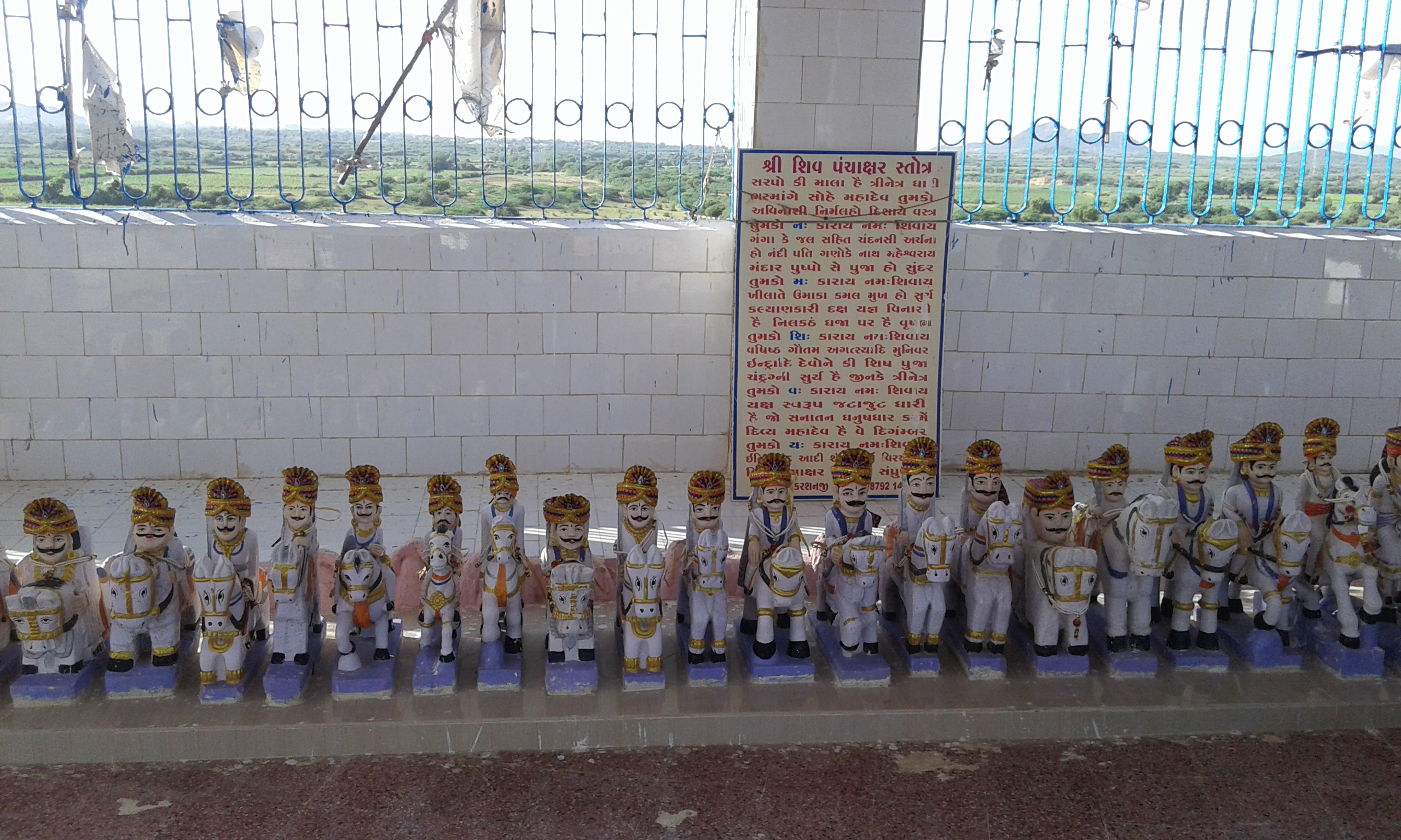 Jakh Bahotera are group of folk deities worshiped in Kutch region of Gujarat, India. Image of their idols is taken at temple at Kakadbhit (Mota Yaksh) near Nakhtrana, near Bhuj, Kutch, Gujarat, India.